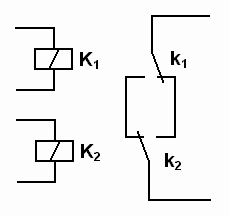 XOR gate implemented with relay.